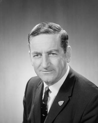 A 1962 black and white portrait of Fred Chaney, MHR for Perth